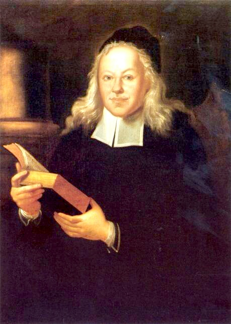 August Hermann Francke, founder of the Francke Foundation in Halle/S., Germany. Oil-painting.